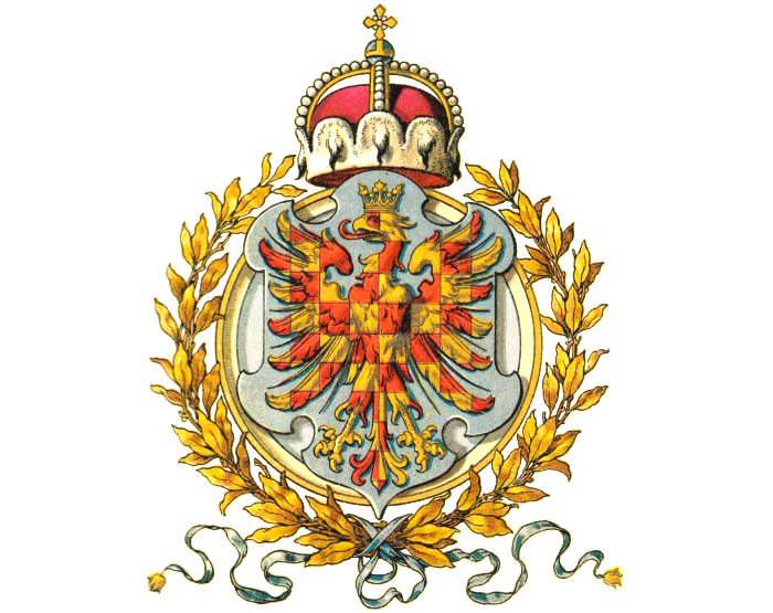 Unnoficial (not adopted) historical coat of arms of the Margraviate of Moravia